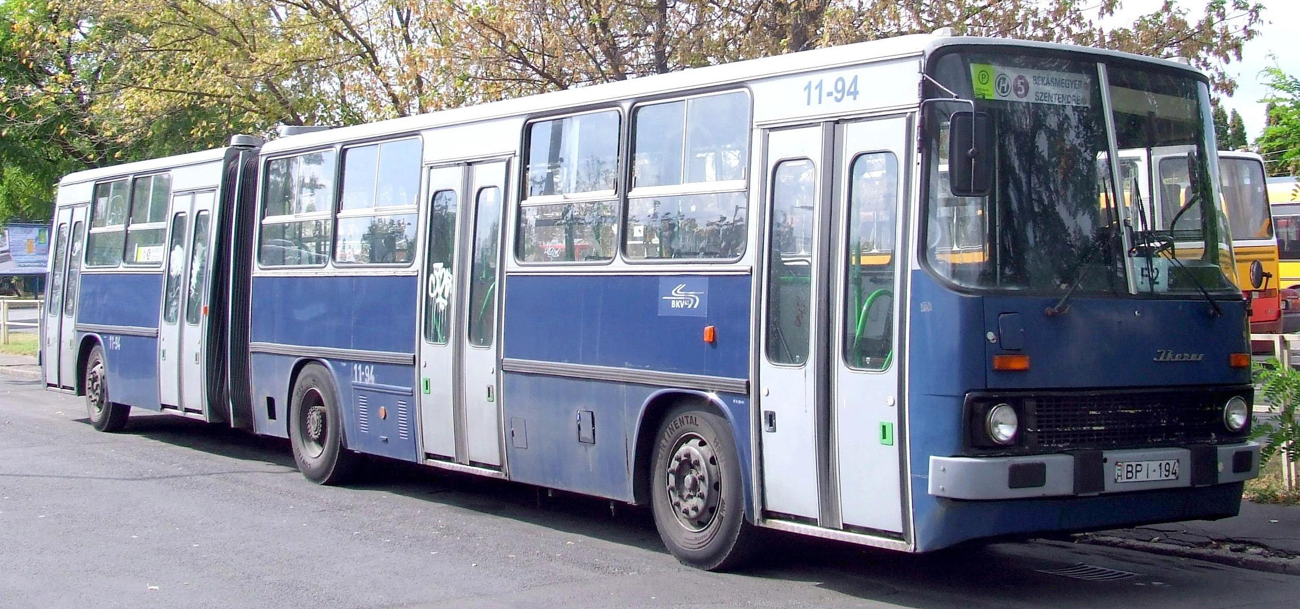 Ikarus 280 Szentendre